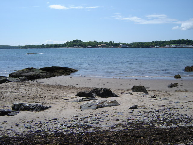 Garlieston Bay Looking across Garlieston Bay towards the harbour.